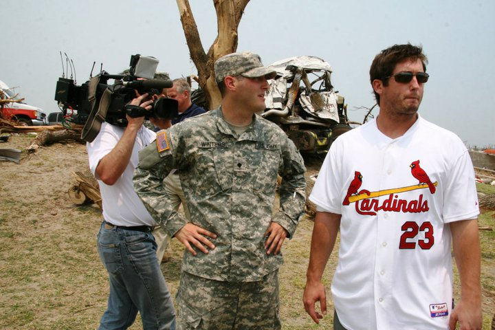 While in the Joplin Area the Cardinals’ David Freese surveys the damage caused by the 2011 Joplin tornado, June 8, 2011. The Cardinals later met at the Joplin Athletic Complex to announce the “Teams Unite for Joplin” initiative.